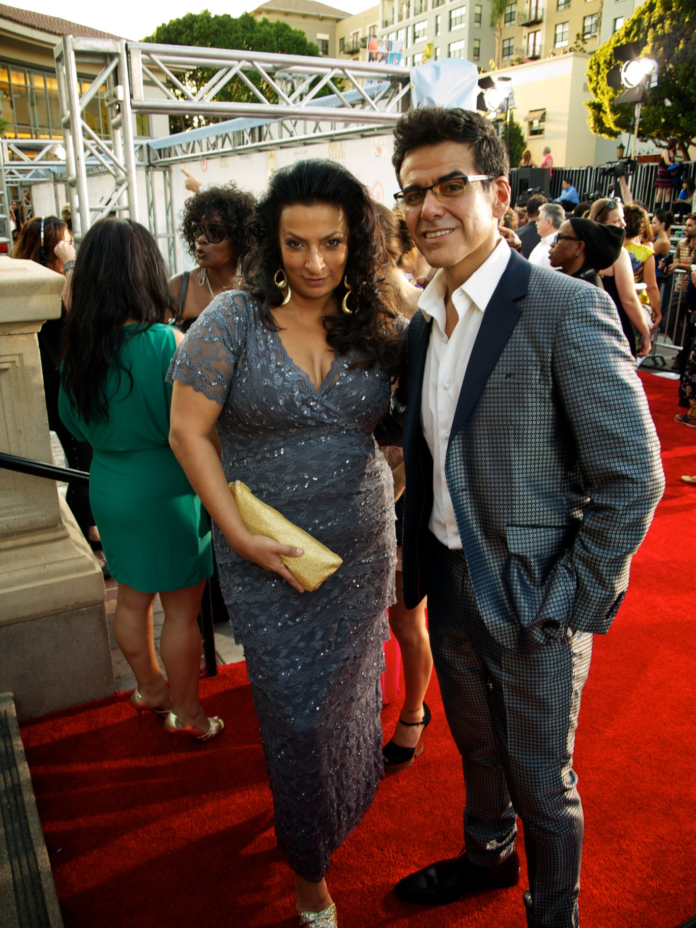 Alma Awards 2012